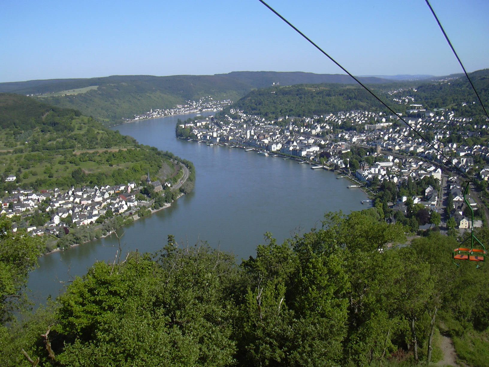 Chairlift Vierseenblick, view on the Rhine Valley/Germany